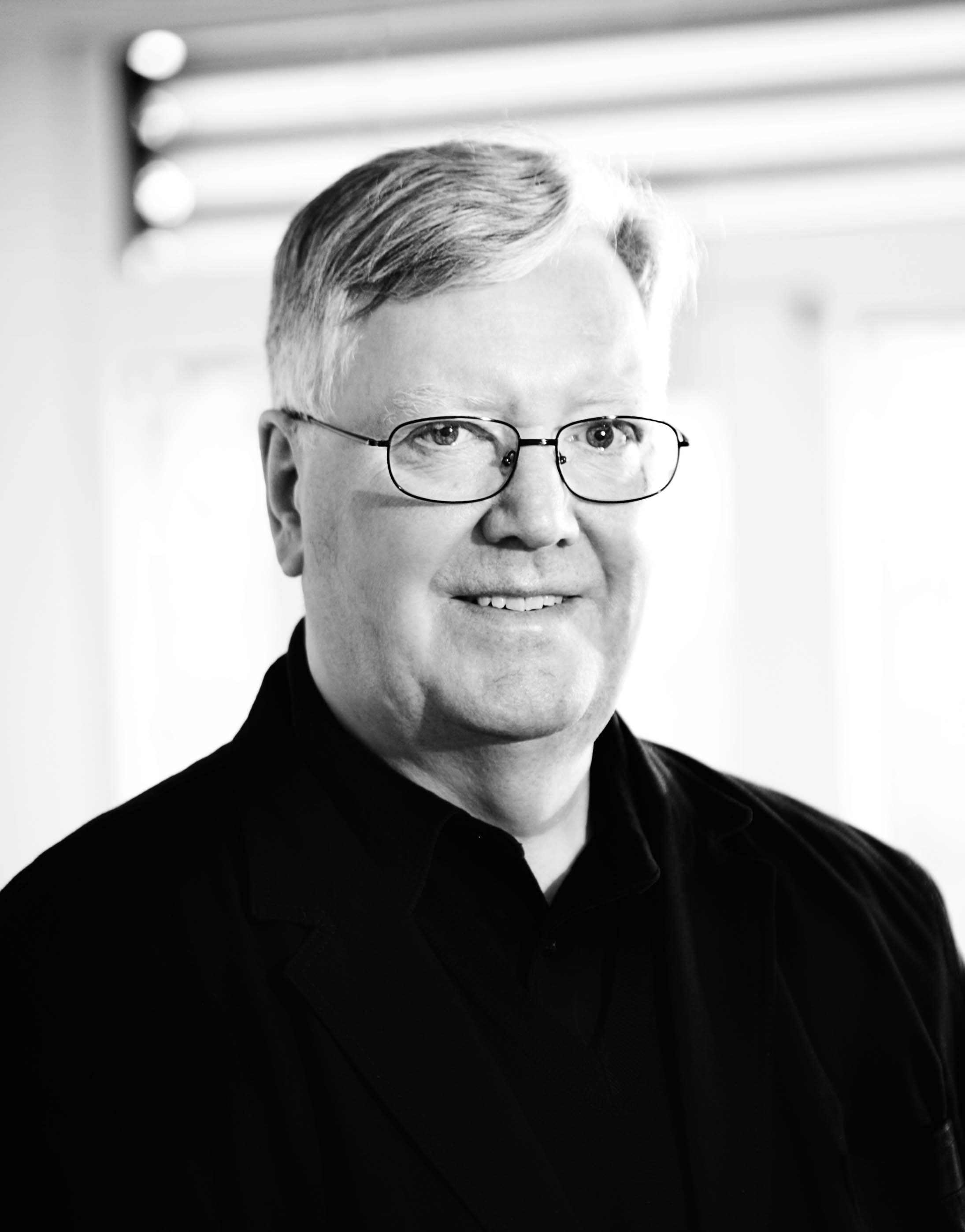 John-Heskett INDEX-Award-2009-Jury